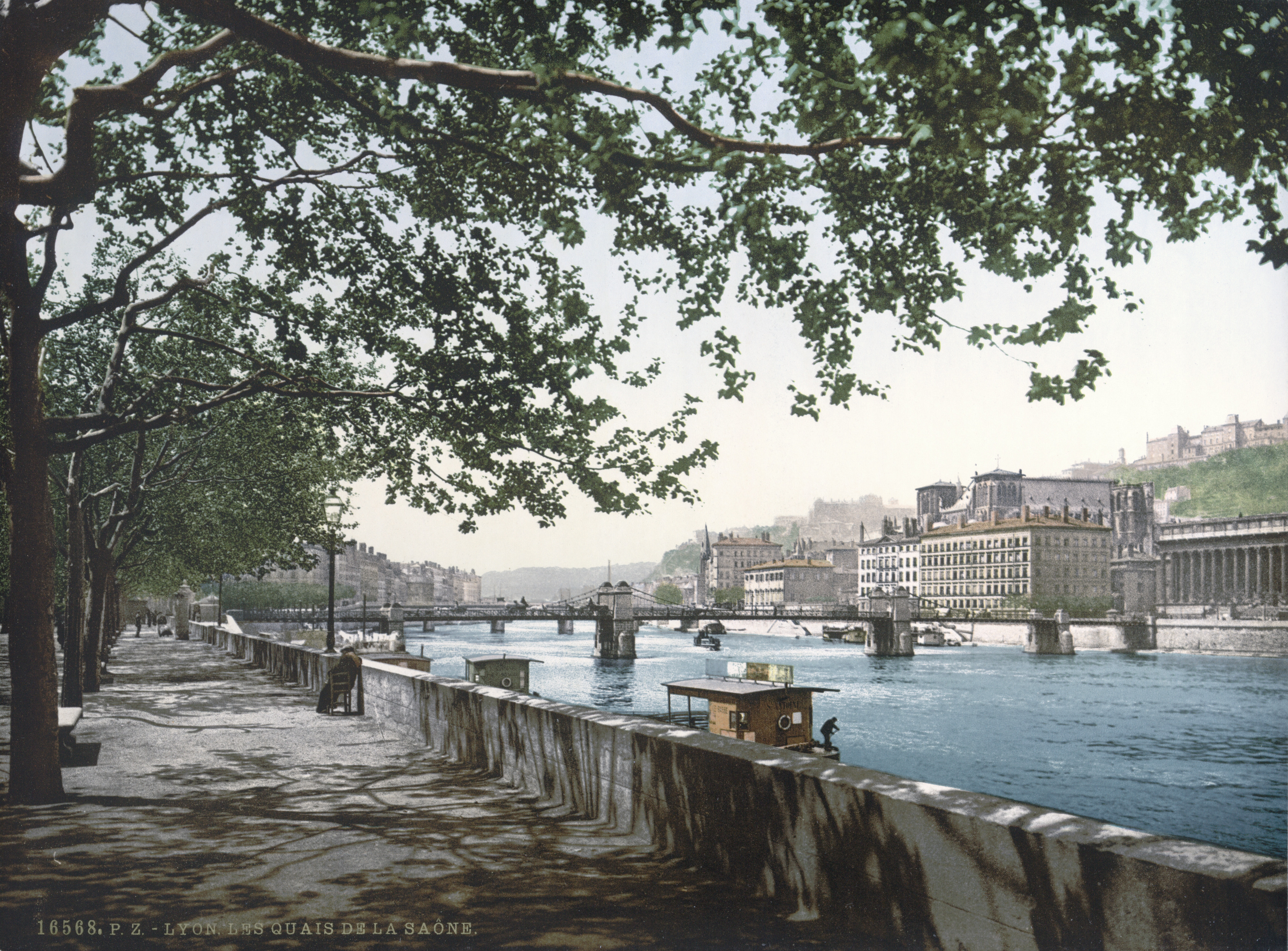 The quay of the Saône, Lyons, France